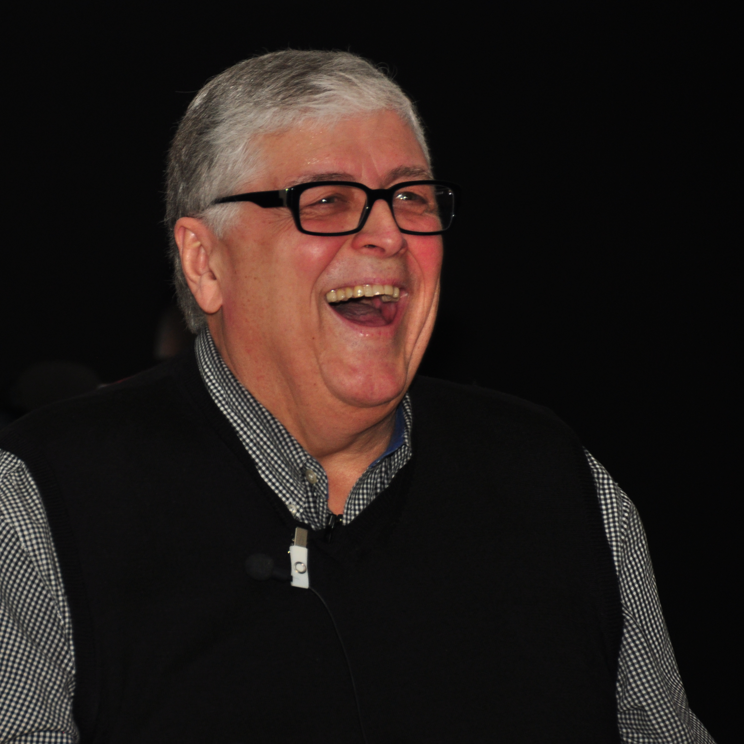 CBC radio Early Edition talk show host Rick Cluff gives SFU communication class the scoop on real world reporting in the field.